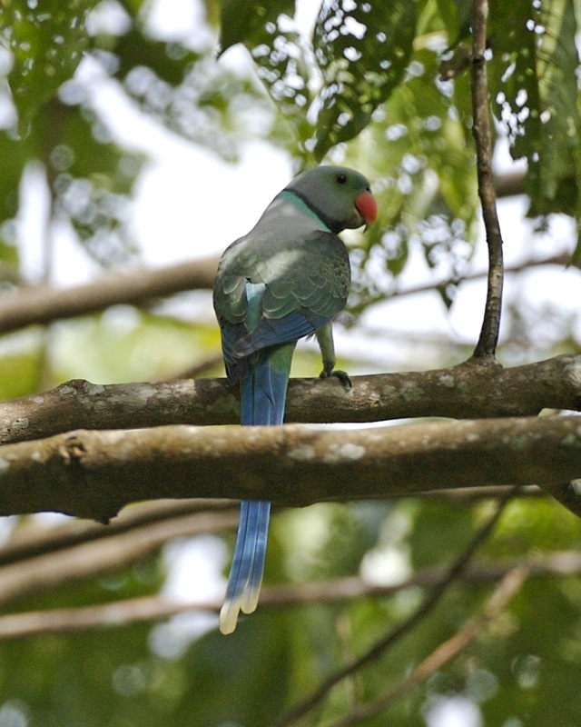 Malabar Parakeet (Psittacula columboides). A male at Thattekad, Kerala, India.